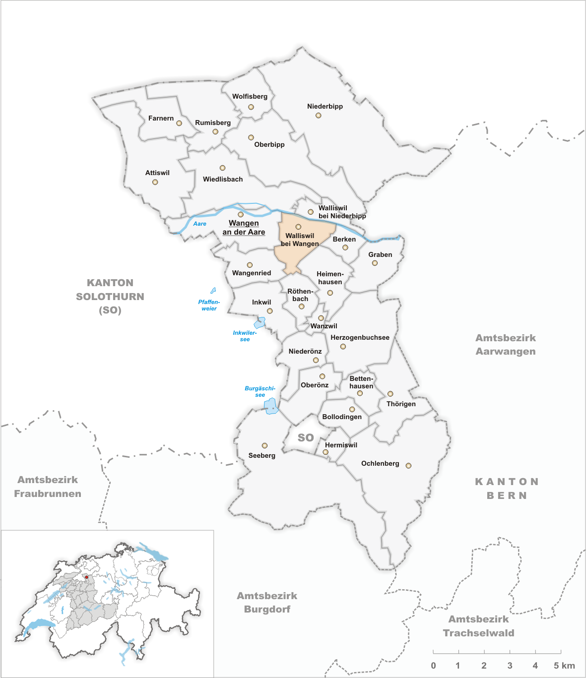 Municipality Walliswil bei Wangen